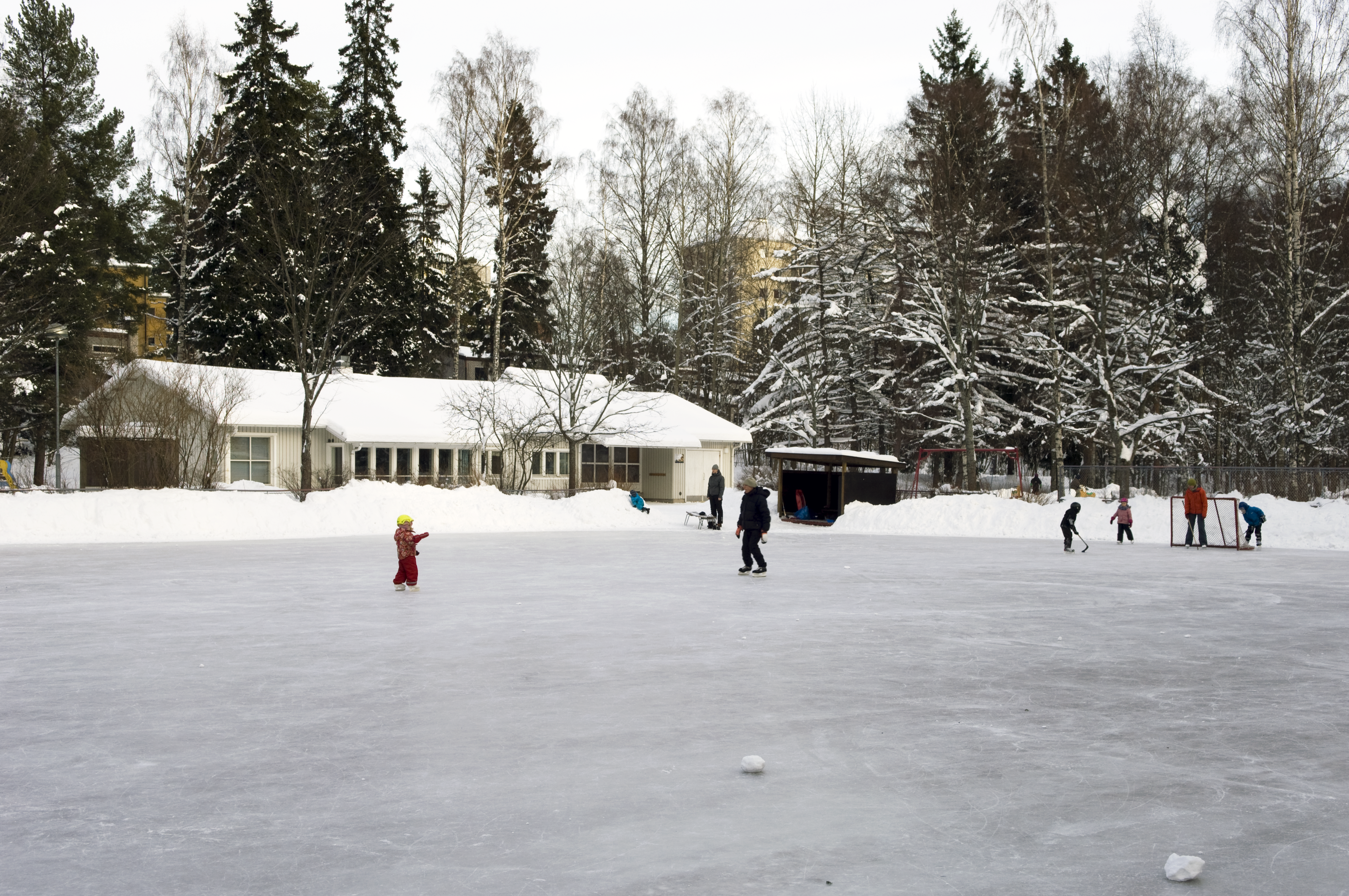 An ice rink in play park Ulvila in Munkkivuori, Helsinki, Finland.